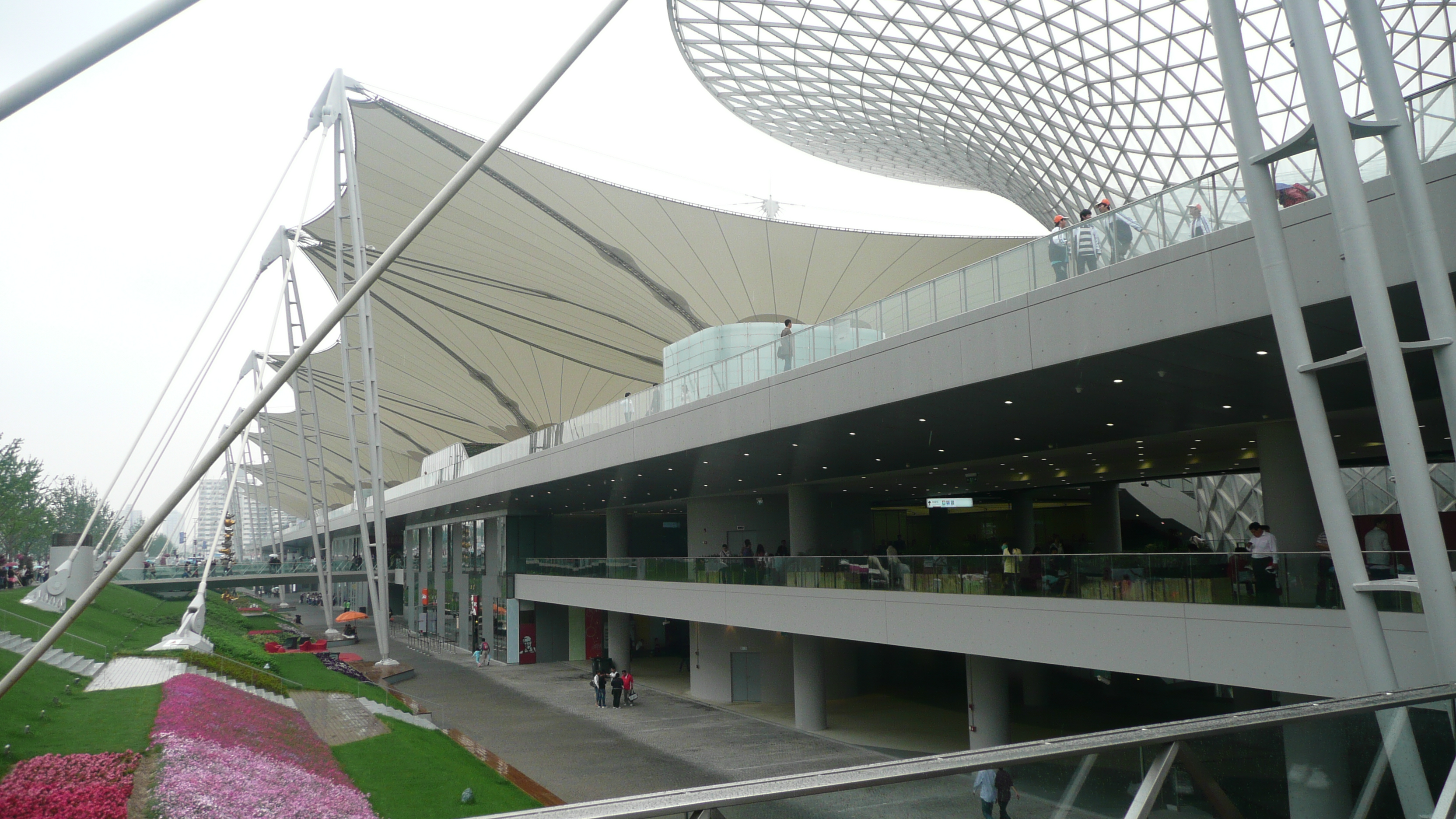 Expo Axis, Shanghai Expo 2010